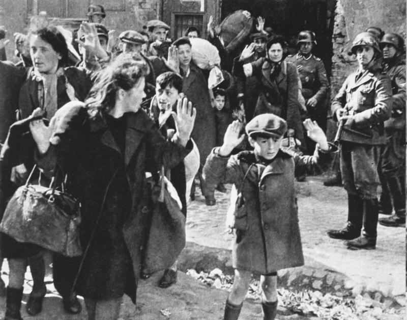 Warsaw Ghetto Uprising - Photo from Jürgen Stroop Report to Heinrich Himmler from May 1943. The original German caption reads: "Forcibly pulled out of dug-outs". People recognized in the picture: Boy in the front was not recognized, some possible identities: Artur Dab Siemiatek, Levi Zelinwarger (next to his mother Chana Zelinwarger) and Tsvi Nussbaum. Matylda Lamet Goldfinger Leo Kartuziński - far back with white bag on his shoulder Golda Stavarowski - also in the back, first woman from the right, with one hand raised Josef Blösche - SS man with the gun